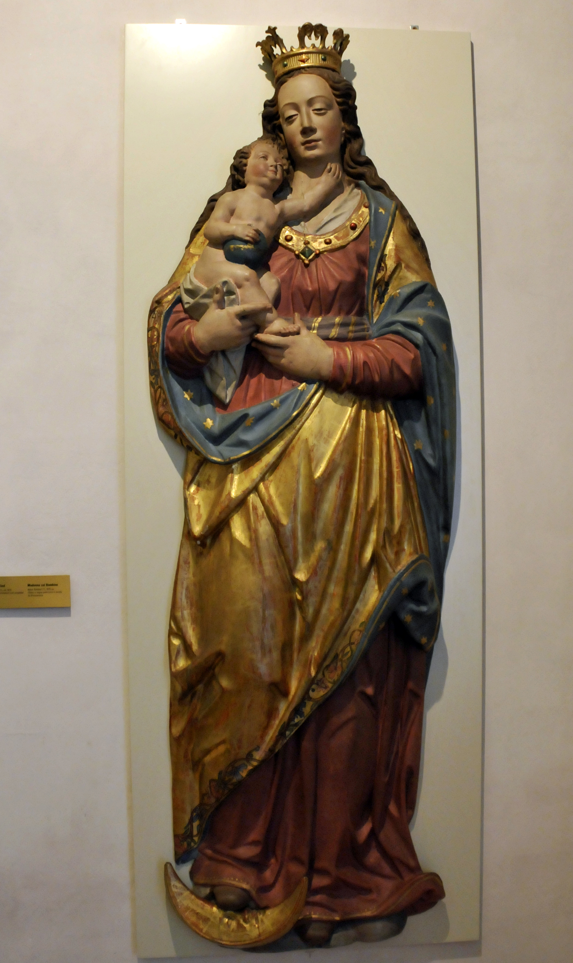 Woodcarved polychrome Madonna by Adam Baldauf 17th century.